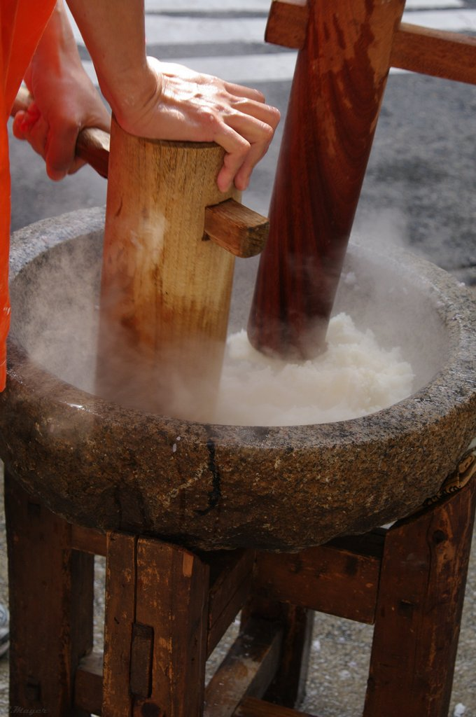 Photo by Bernardo Mayer on Flickr